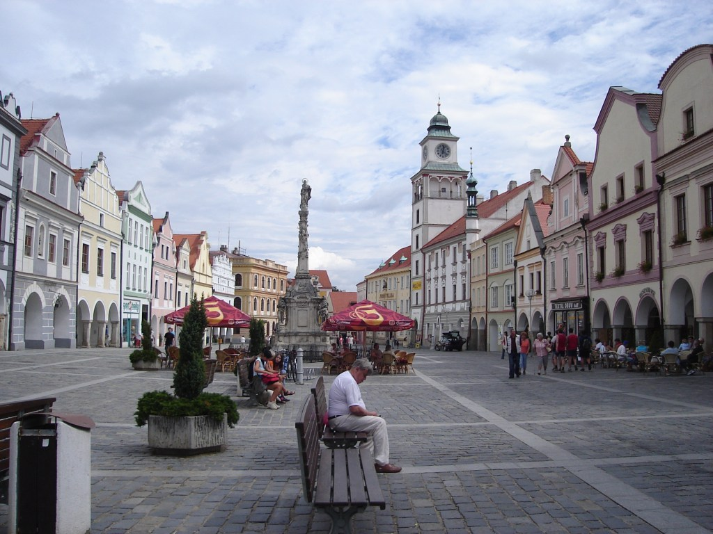 City Třeboň (Czech Republic) - Masaryk's square